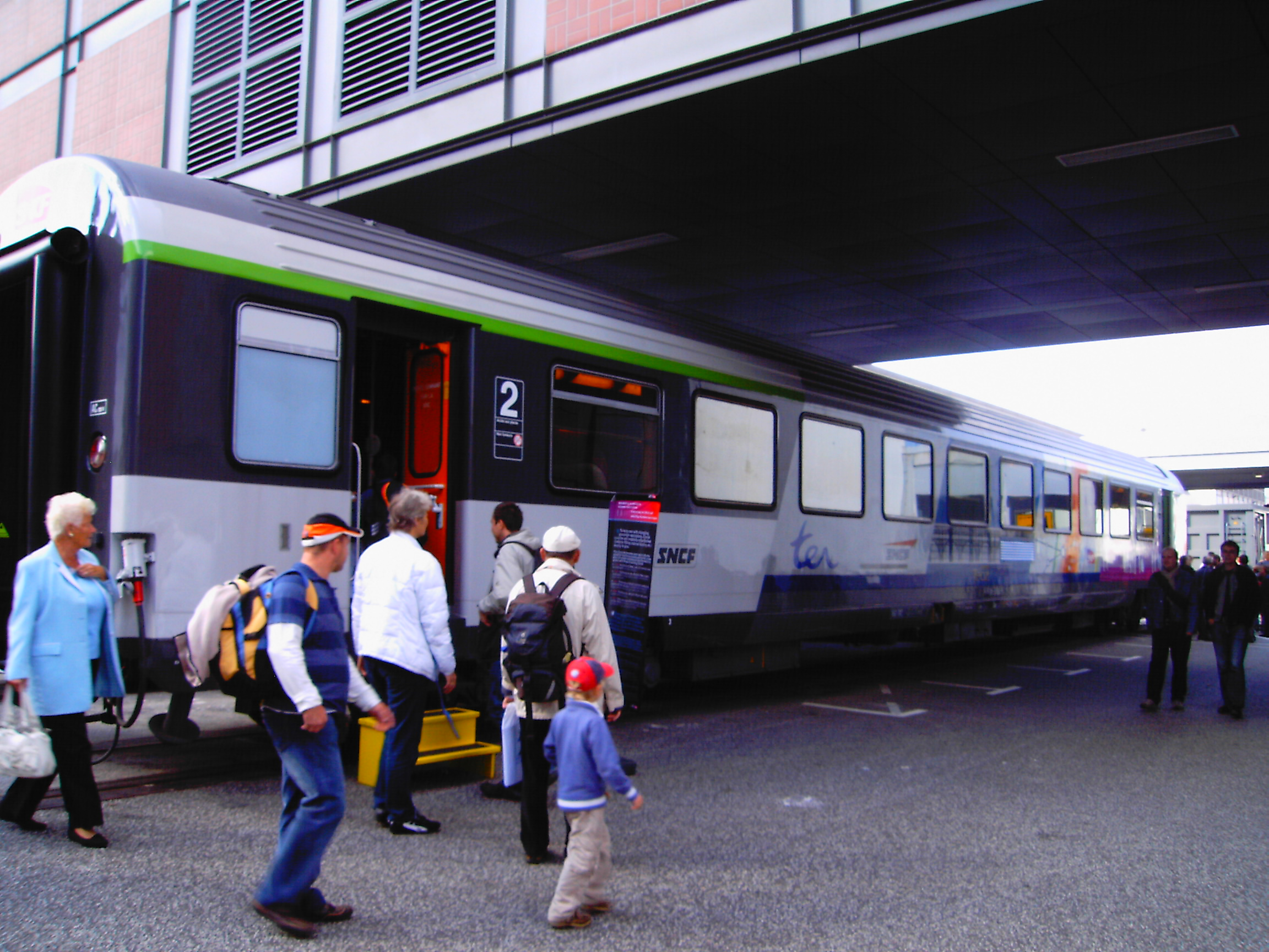 Corailwaggon with many different seats exclusively for show like the Innotrans where this photo was taken.